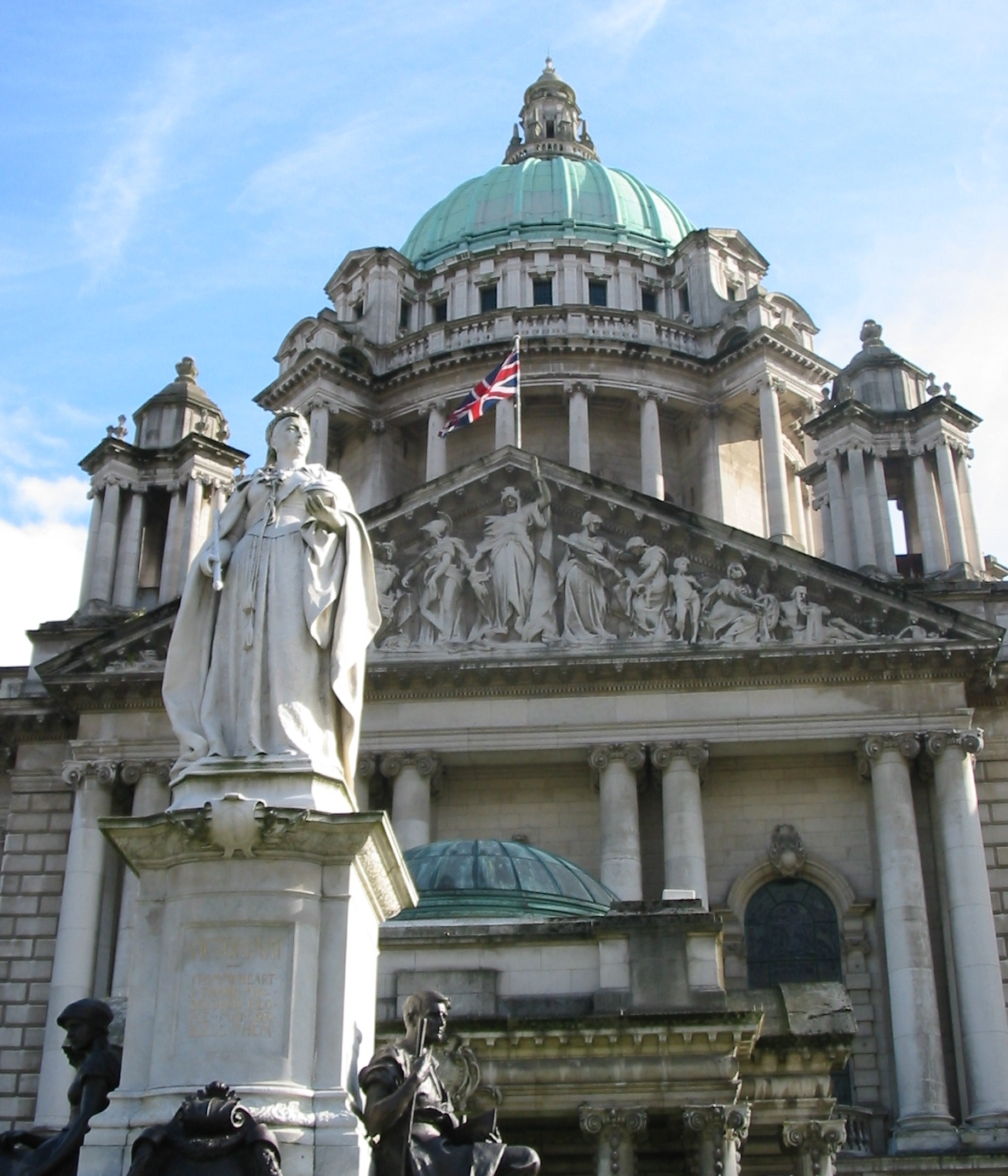 City Hall, Belfast, with statue of Queen Victoria